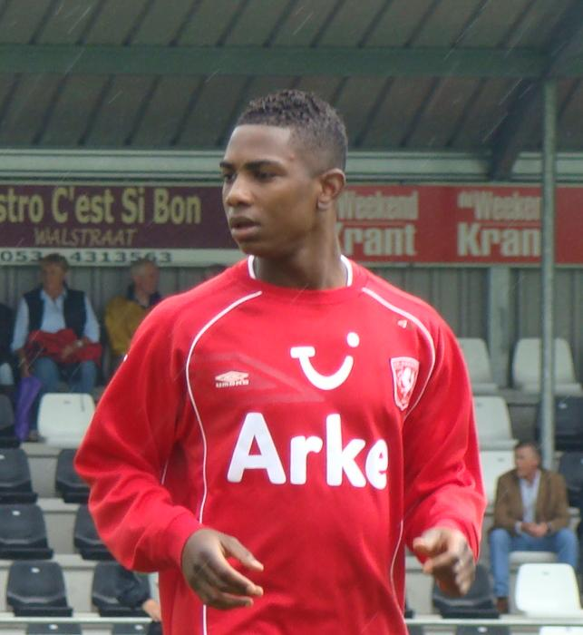 Image of the FC Twente-player Eljero Elia